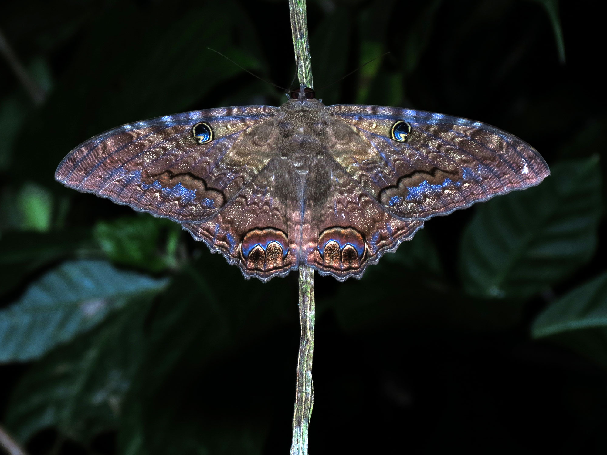 Ascalapha odorata seen on a night walk. Barro Colorado Island, Panama. 17 January 2012